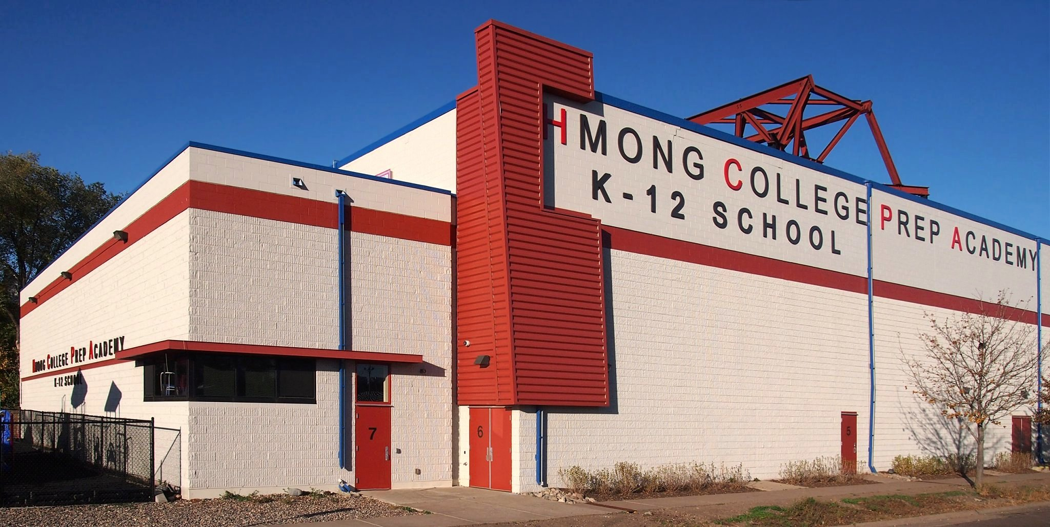 West wing of Hmong College Prep Academy, 1515 Brewster St, St Paul, Minnesota, USA. Viewed from the southwest.